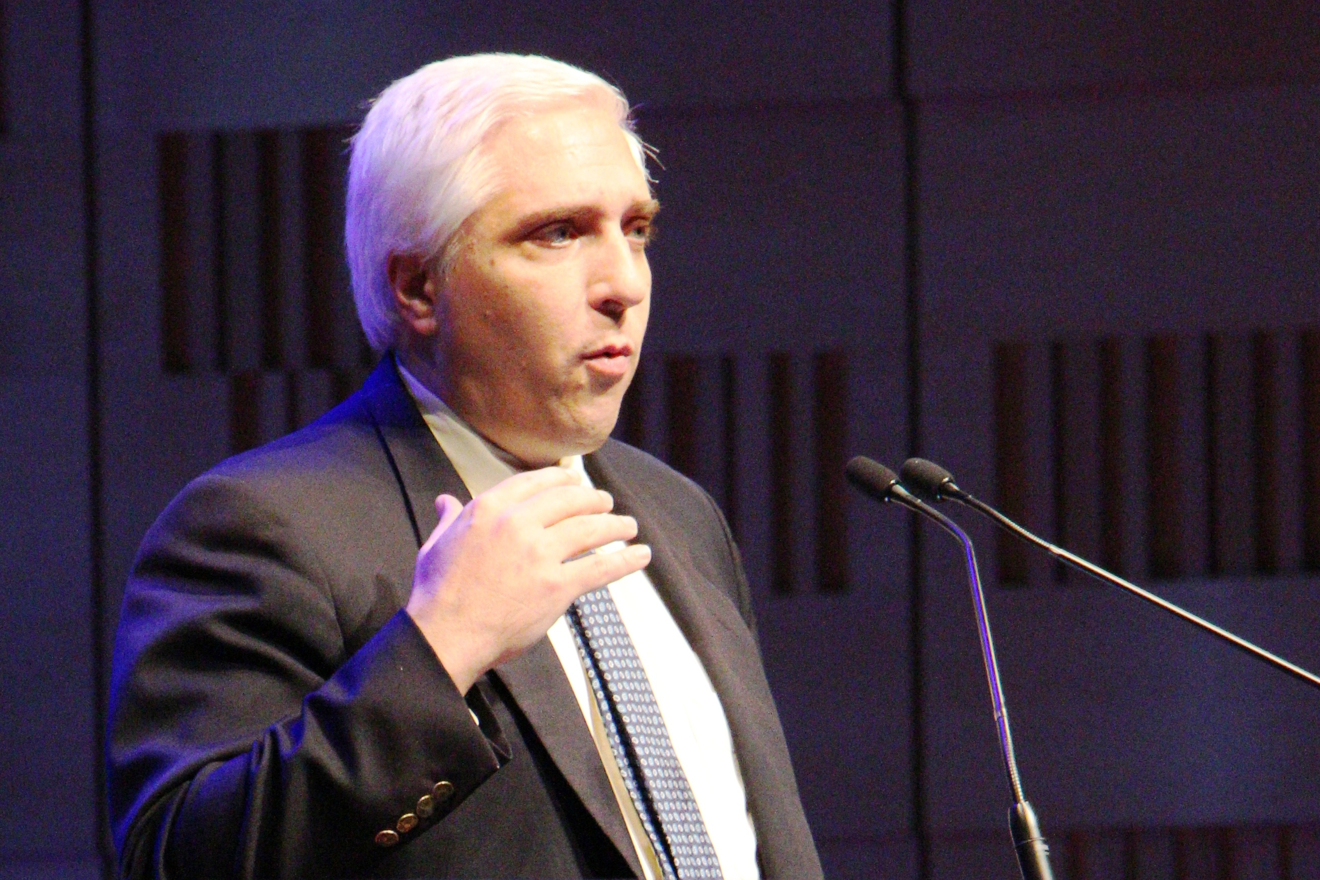 Australian Skeptics Convention held in Sydney, November 2014. Dr Steven Novella speaking on "Being better skeptics".